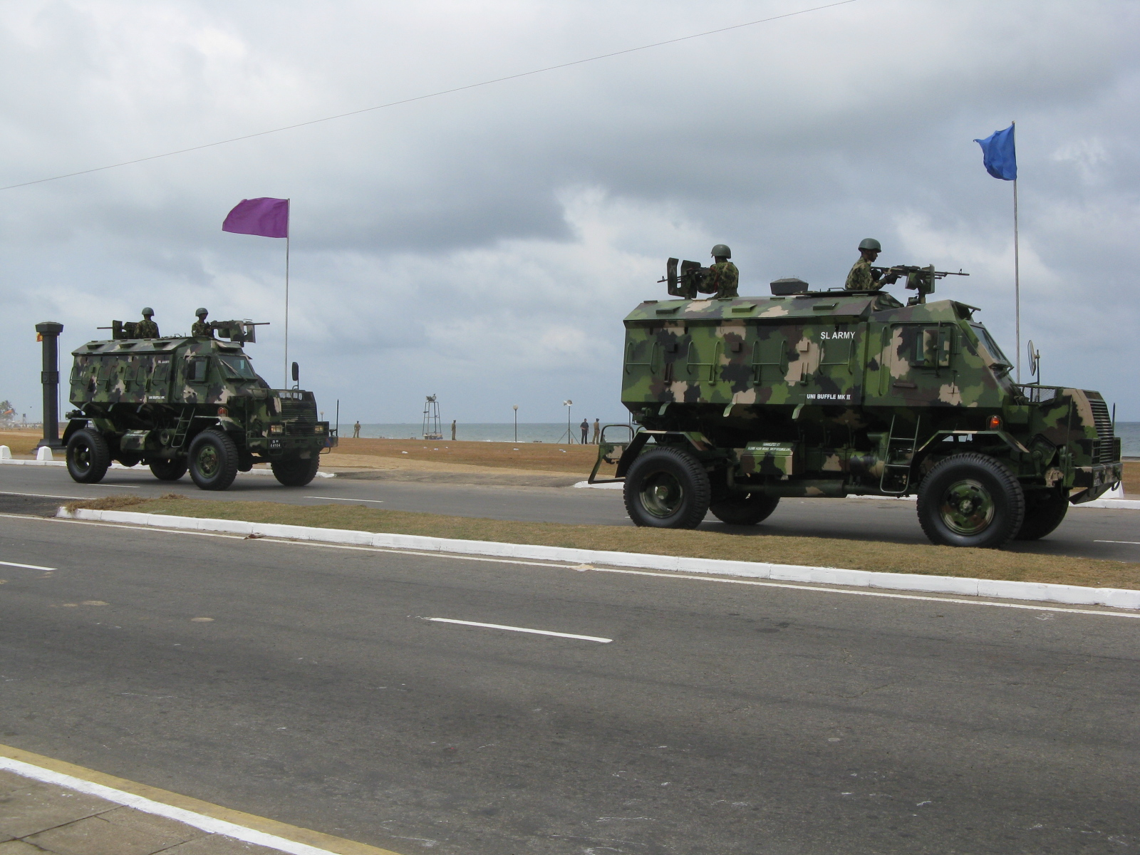 Unibuffel MK II Armored Personnel Carriers - Sri Lanka Army